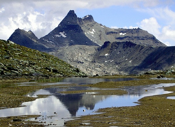 Landscape on Col di Nivolet (Italy/Piemonte) Picture taken by user;Idéfix, august 2005